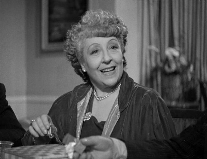 Italian actress Olga Vittoria Gentilli in a scene of the film Campo de' fiori